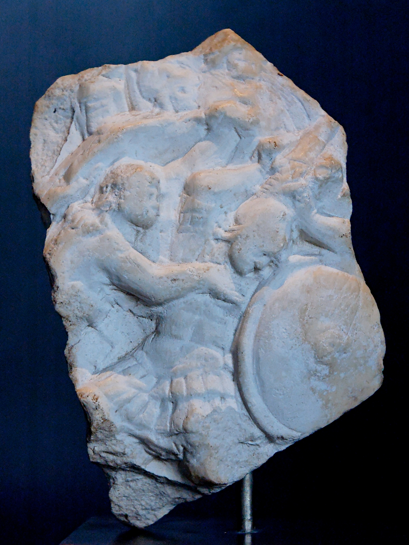 Tabula iliaca representing the fight of Menelaus and Paris for Helen: Menelaus (hand on the left) grabs Paris (with Phrygian cap and round shield) by the helmet to drag him to the Greek camp. Marble, 1st century BC. From Rome? Stored in the Staatliche Museeen of Berlin, Antikensammlung.